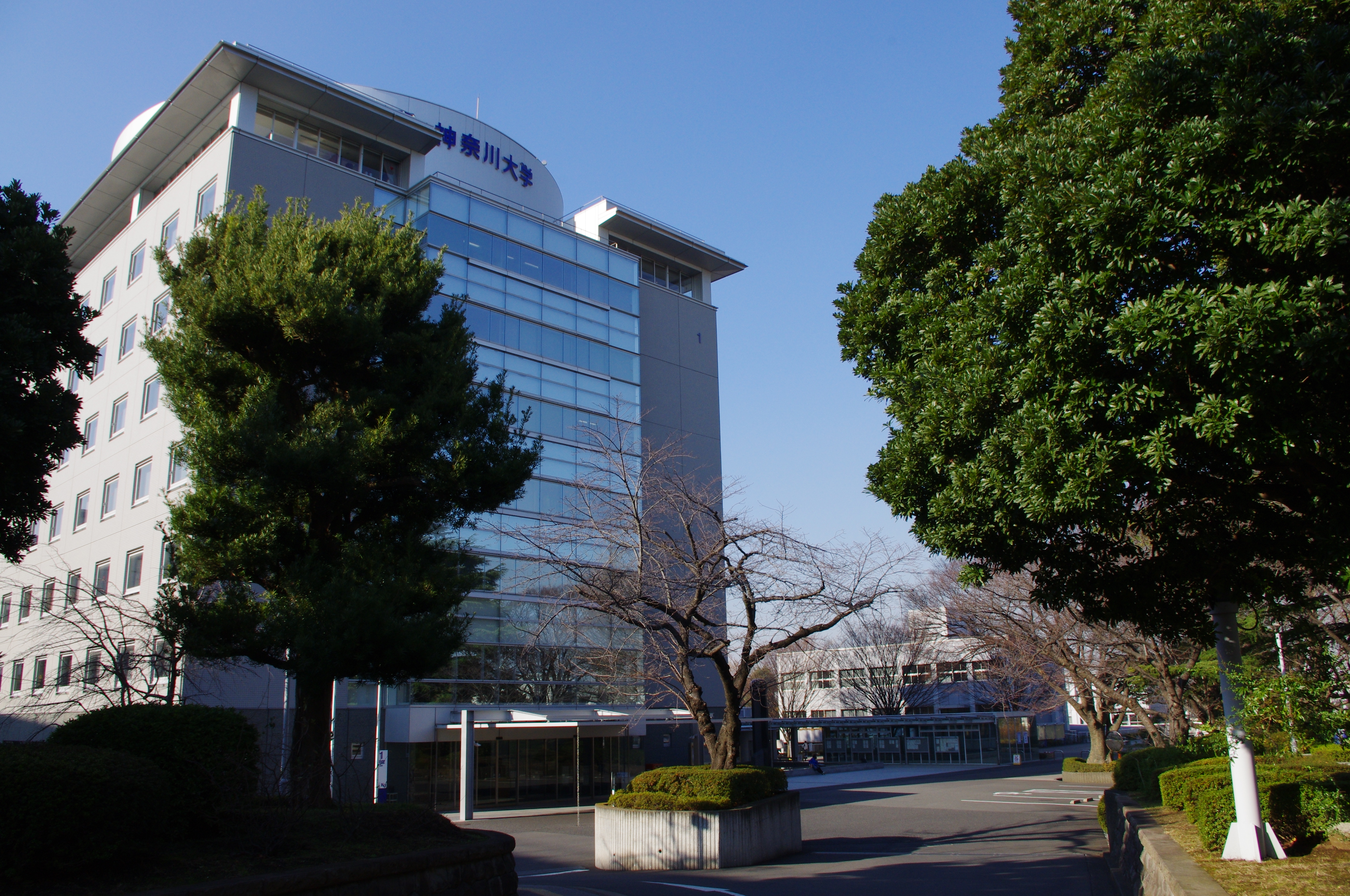 Kanagawa University building1